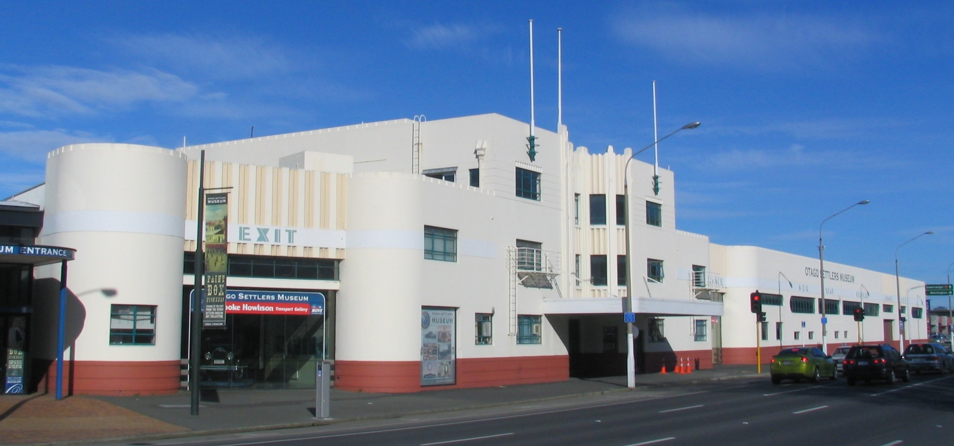 Transport wing of the Otago Settlers Museum, Dunedin, New Zealand